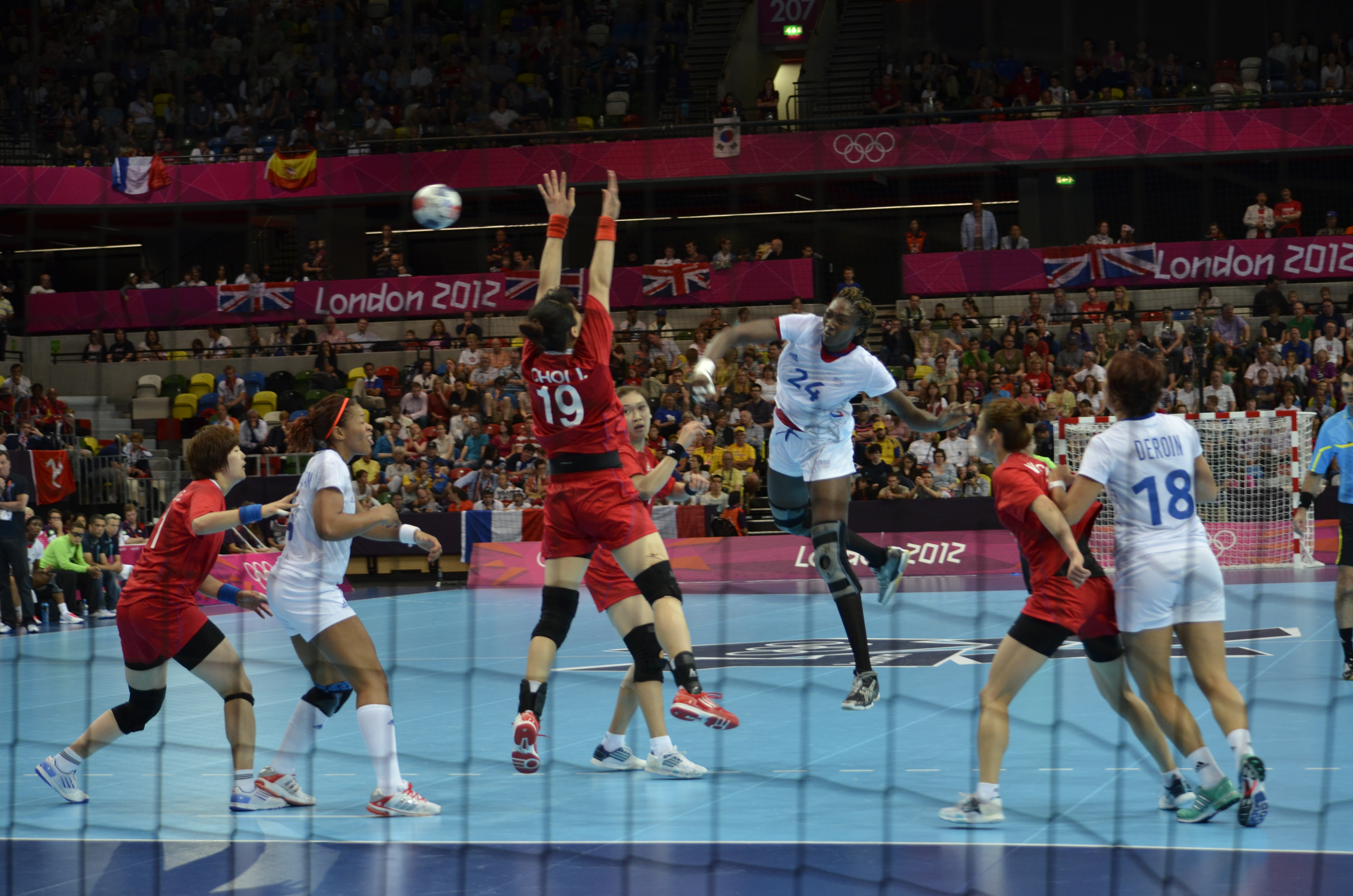 Handball at the 2012 Summer Olympics